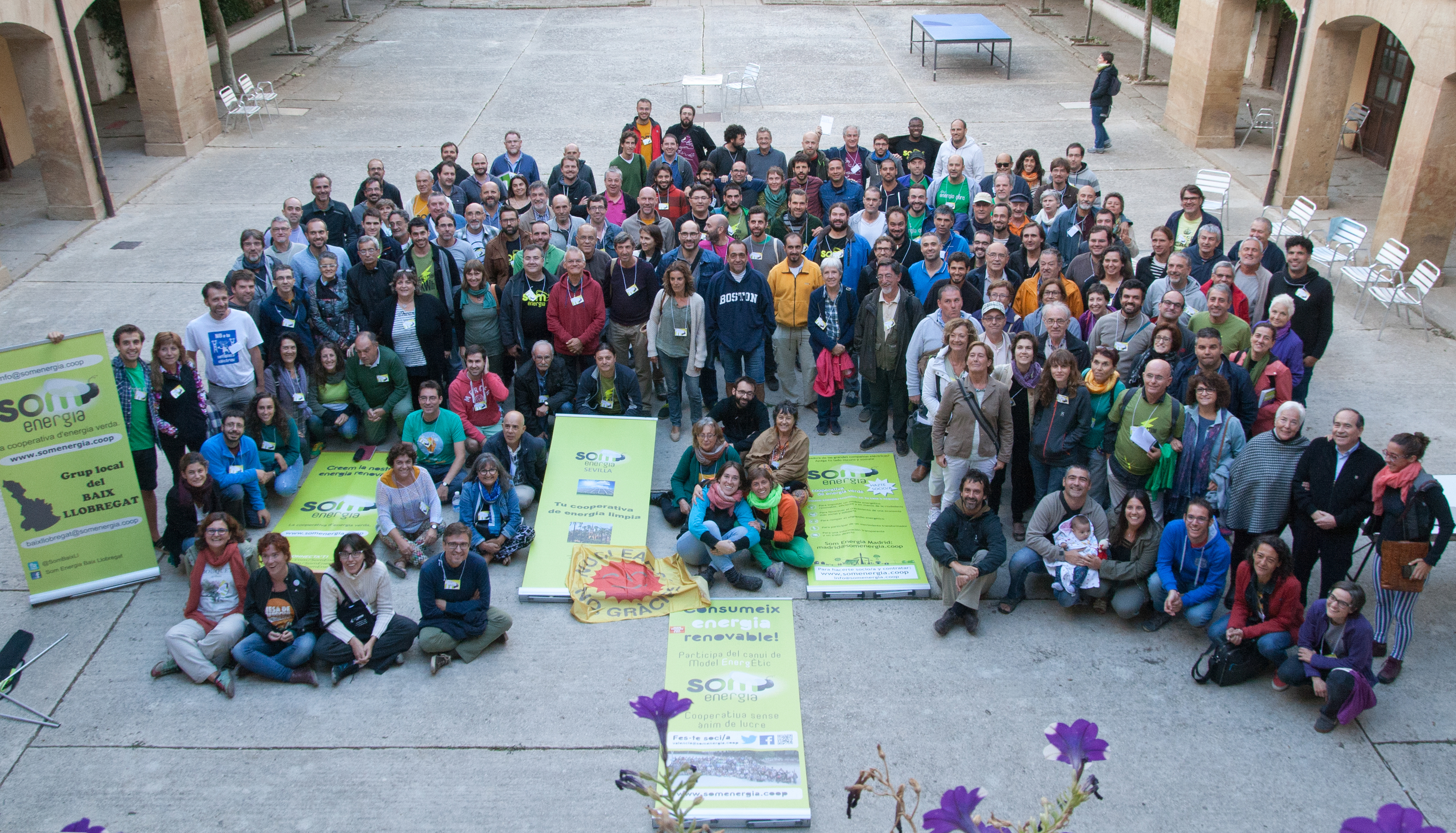 Participants in the September School 2016 of Som Energia (Navarra)